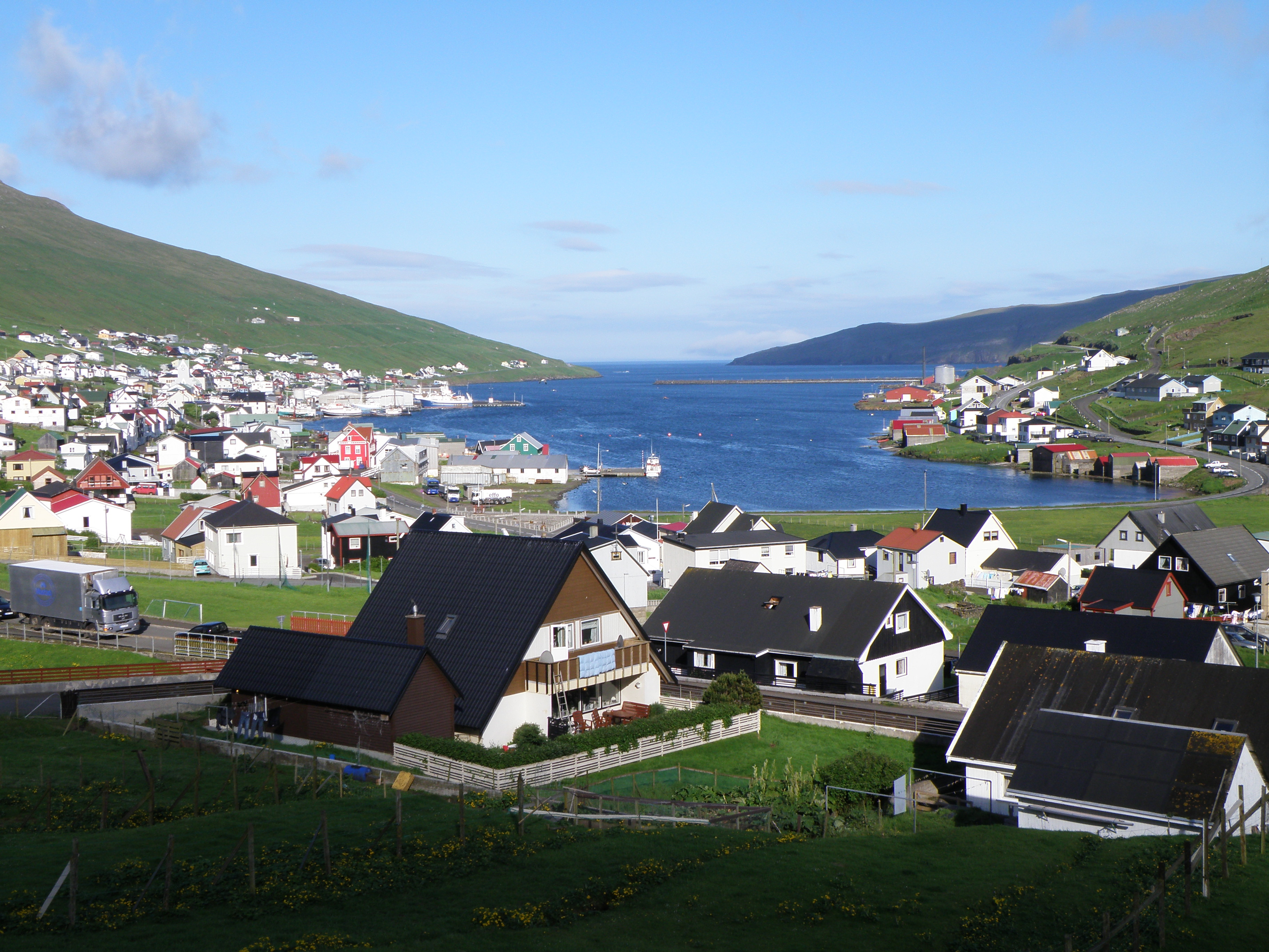 Vágur is a village on Suðuroy in the Faroe Islands. This is the view towards east over the village and the fjord Vágsfjørður, taken in June 2010 in the evening.